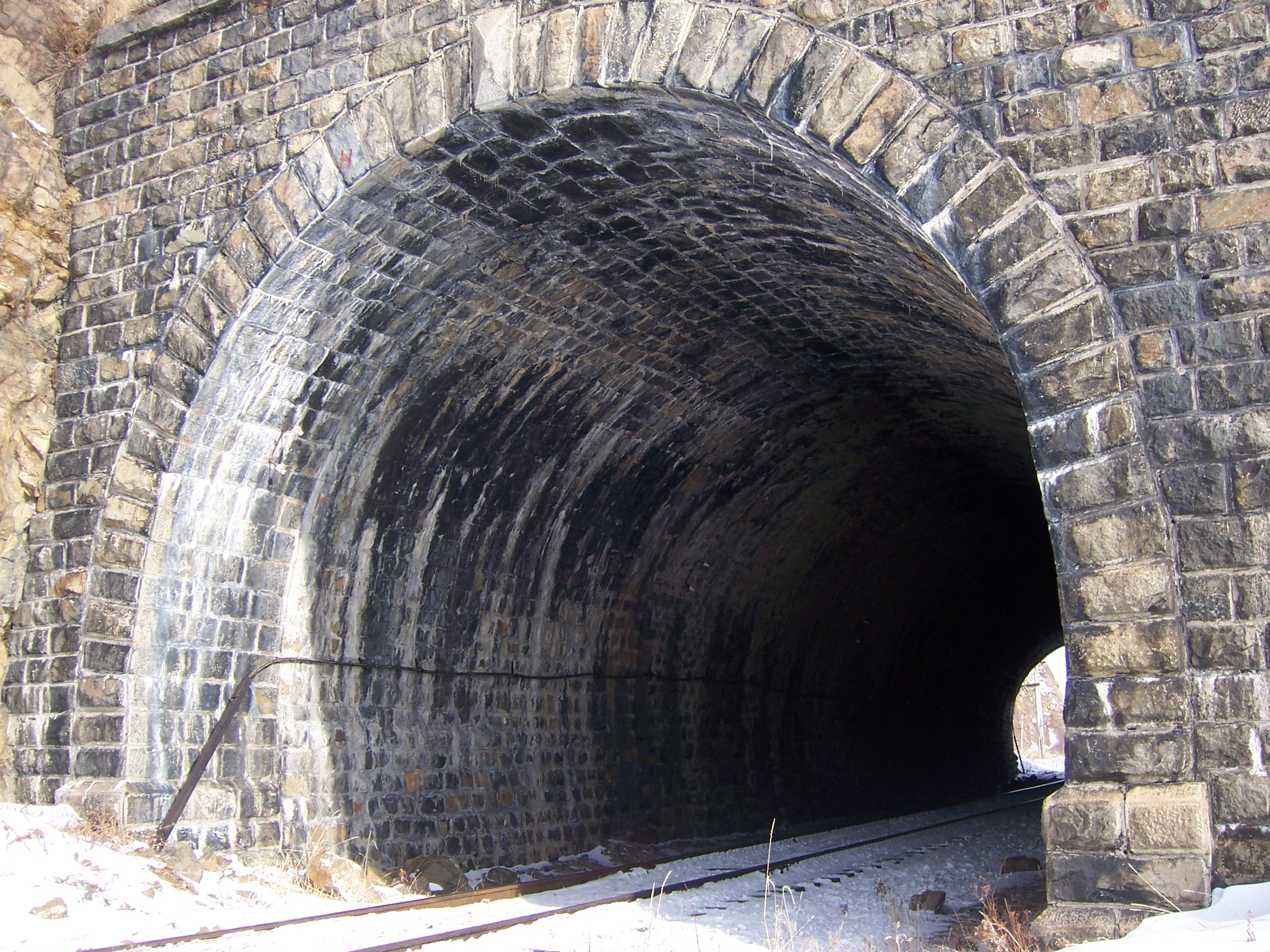 Tunnel No. 3 of the Circum-Baikal Railway near Baikal Port